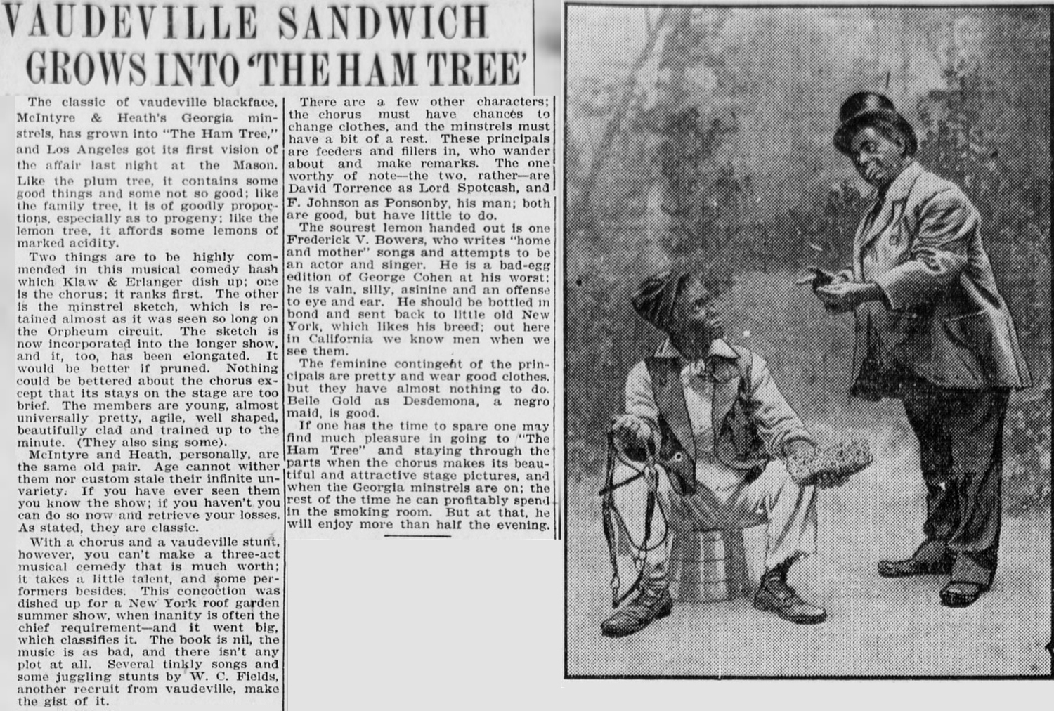 Los Angeles Herald article on Vaudeville — 23 January 1907.